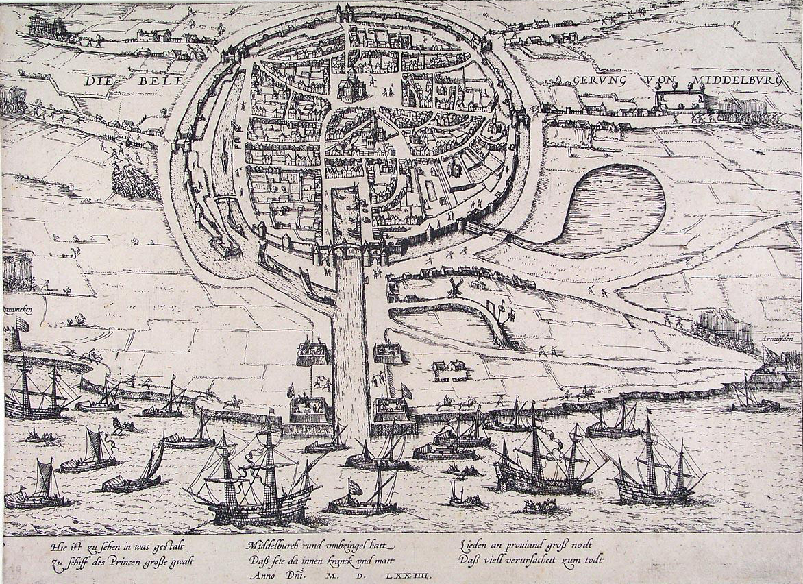 Part of the series {name }.